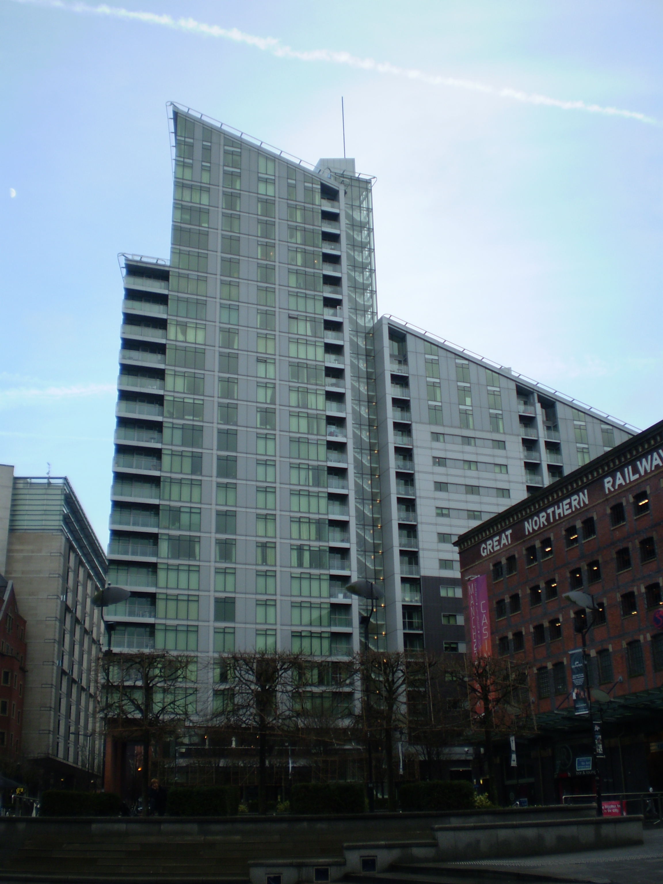 Great Northern Tower & Great Northern Square, Manchester City Centre